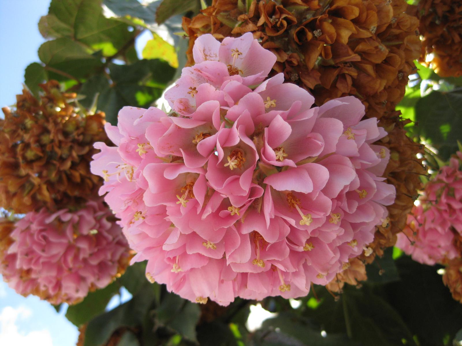 Photographed at Huntington Gardens (Los Angeles) in March